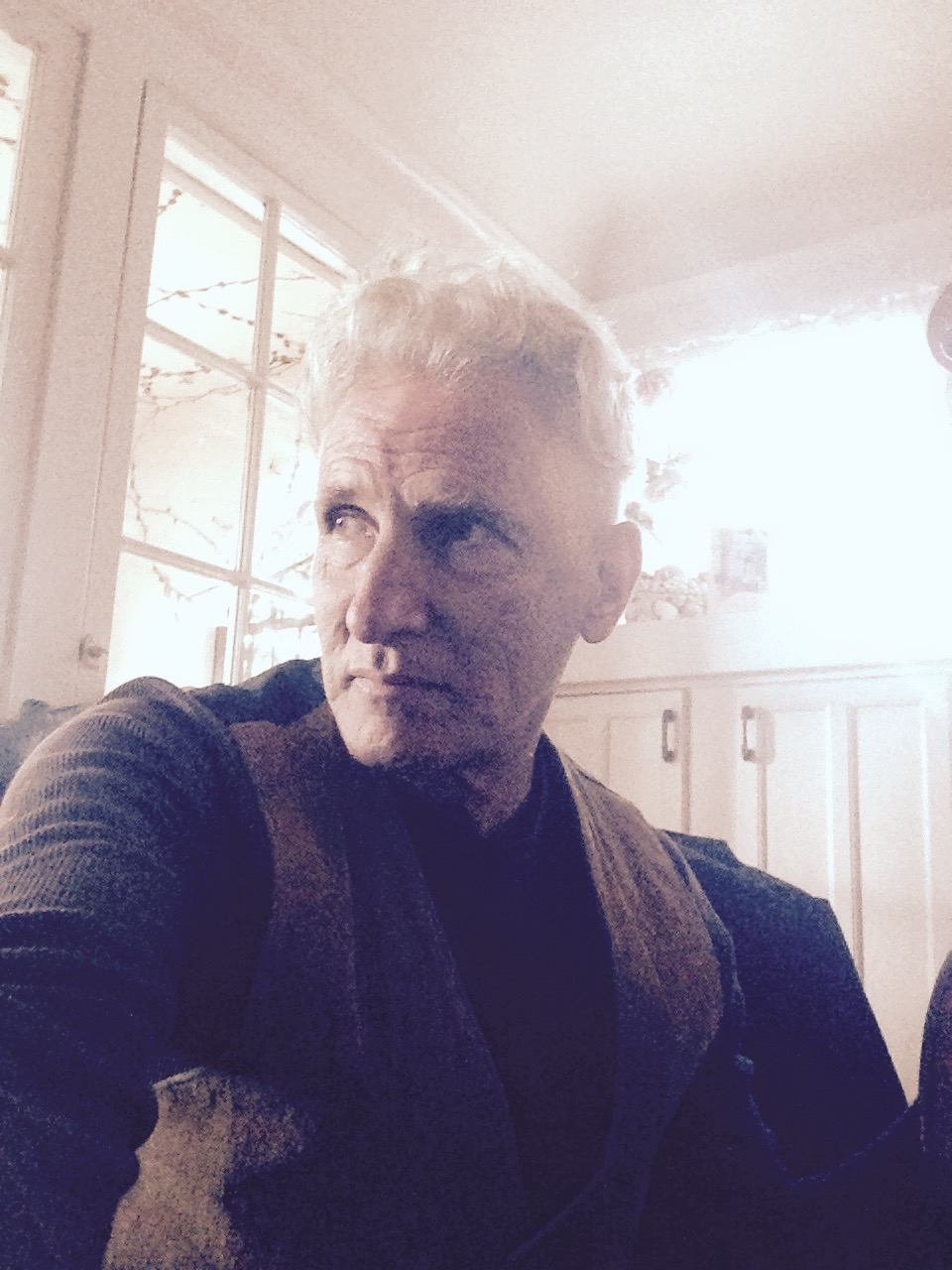 Photo of Don Schiff